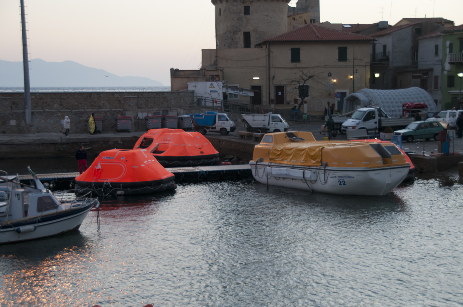 Collision of Costa Concordia - Empty lifeboats were moored inside the pier at Giglio Island. The 2 major types of lifeboats are: the tender (with yellow canopy), and liferafts with an orange cone-shaped canopy ("/_\").